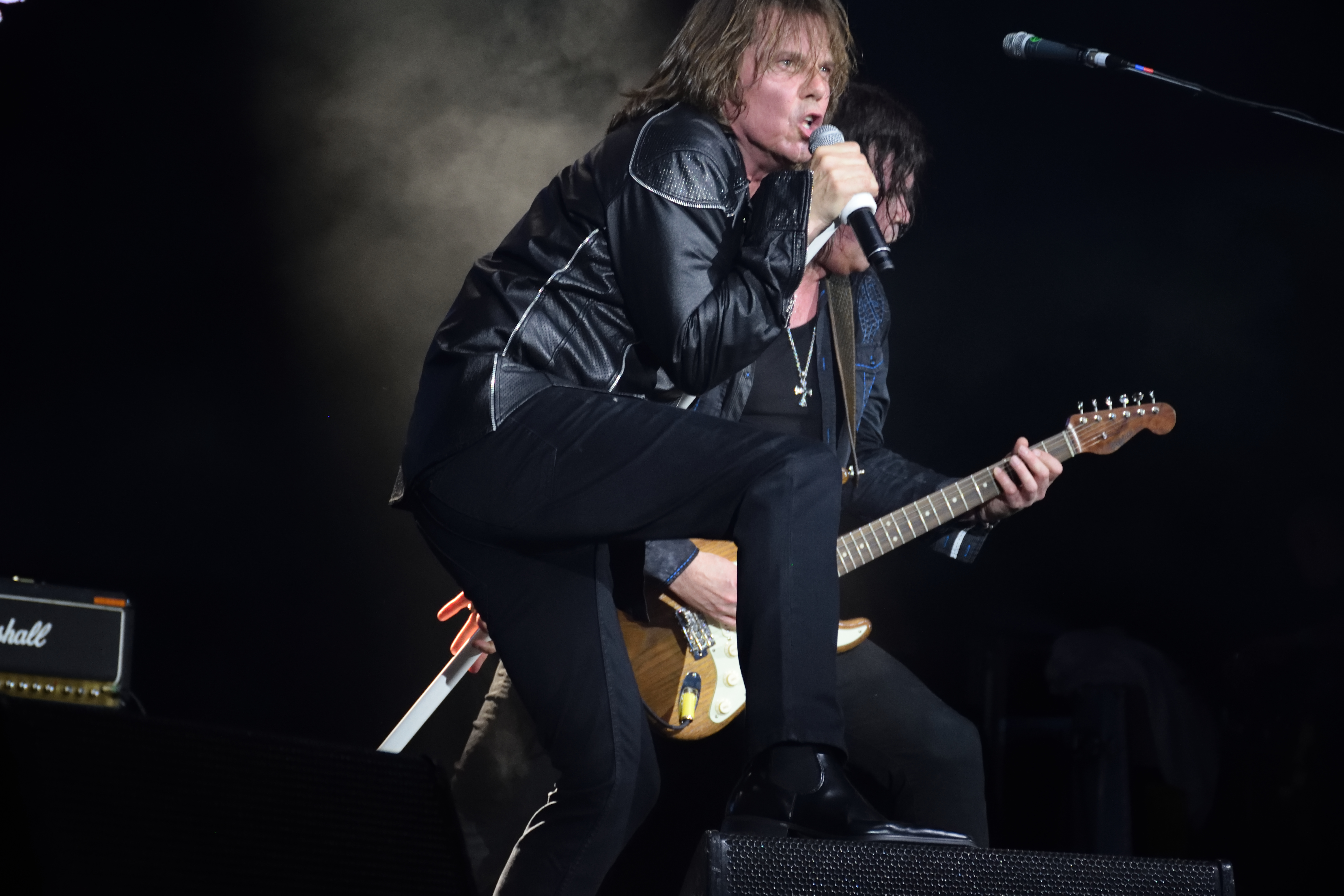 Joey Tempest